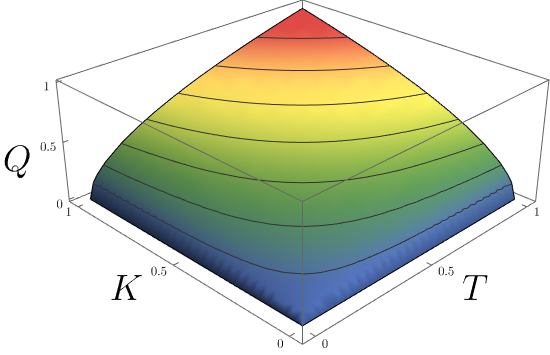 Cobb Douglas production function Spanish version